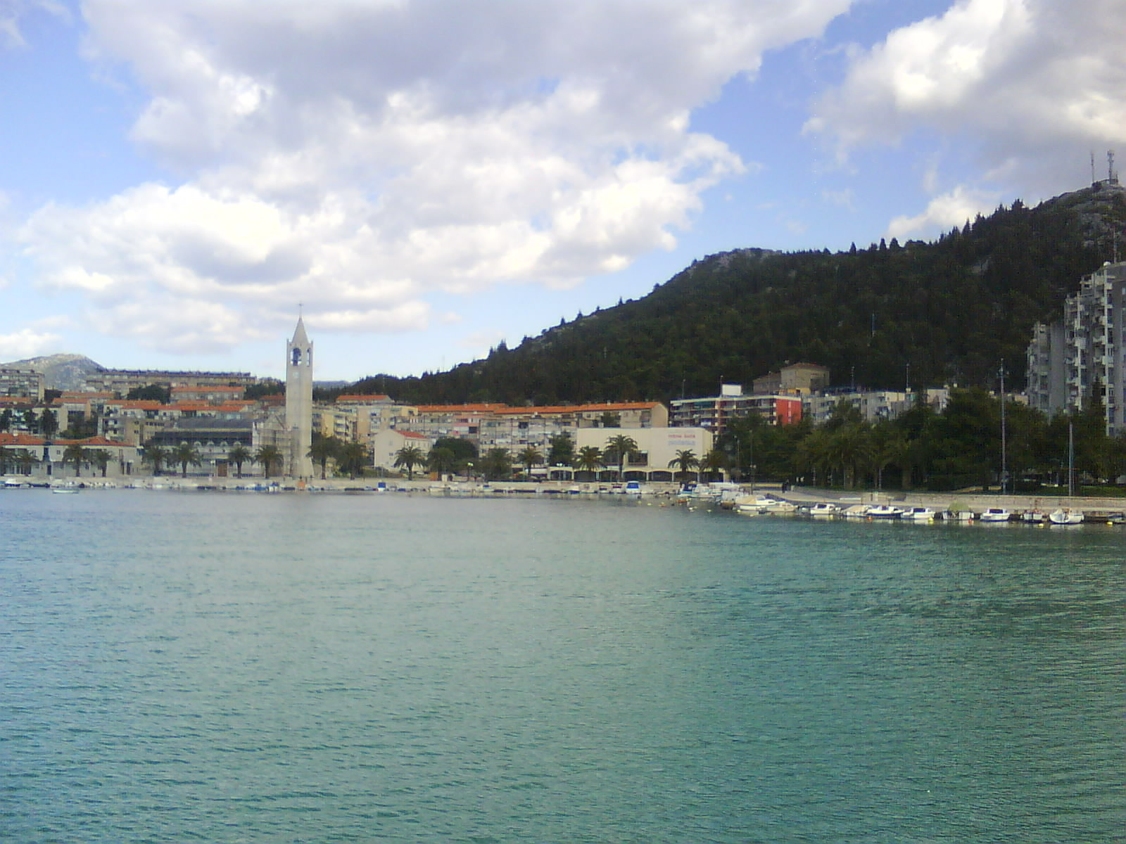 City of Ploče